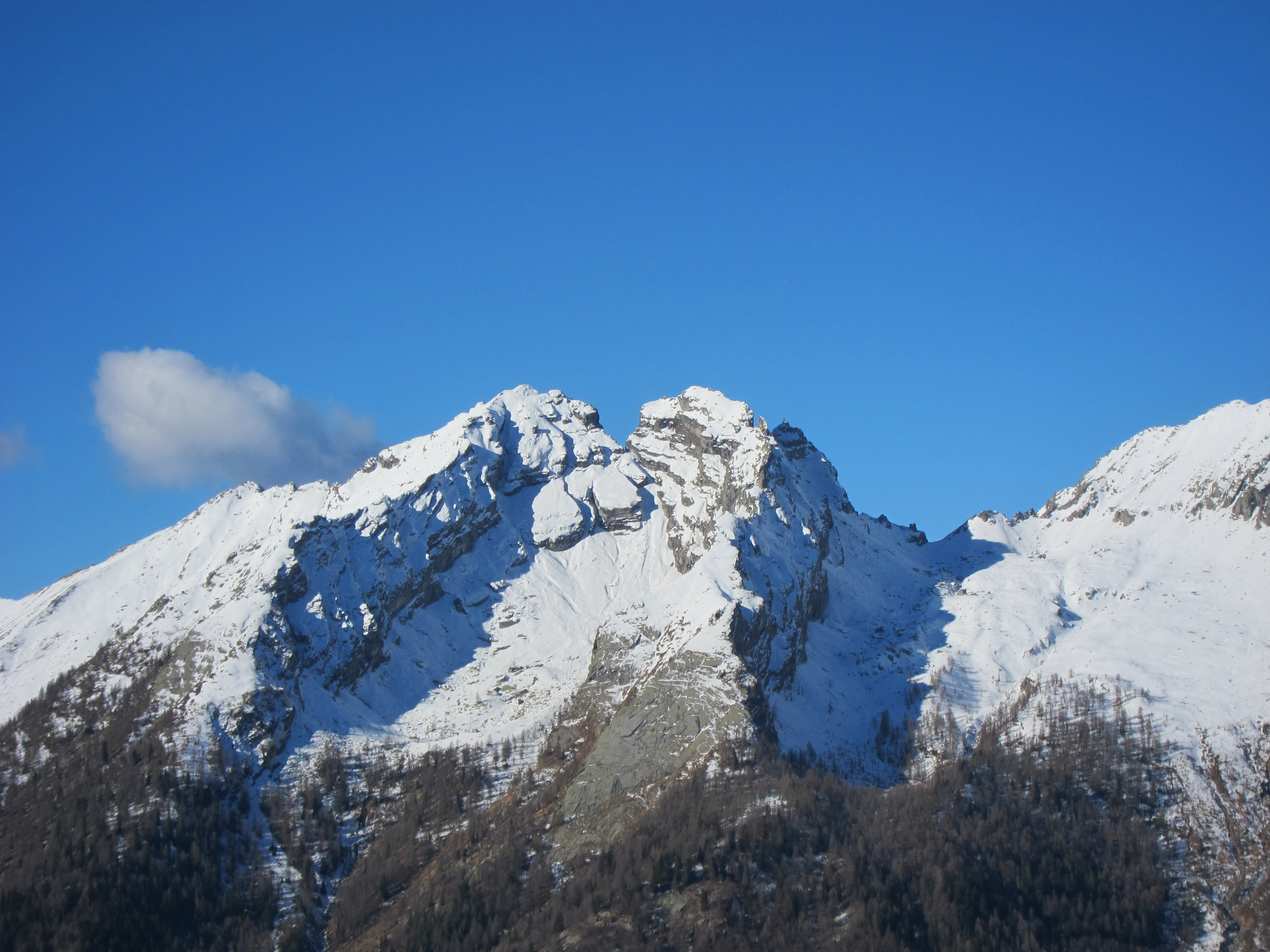 Winter view of the mountain Pizzo la Scheggia, you can notice its characteristic shape that gives the name to mountain wich means "chipped mount". The picture is taken from the ski station Piana di Vigezzo in the municipality of Craveggia in the province VCO, in region Piedmont, in Italy. Picture taken on the 31st of december 2018.